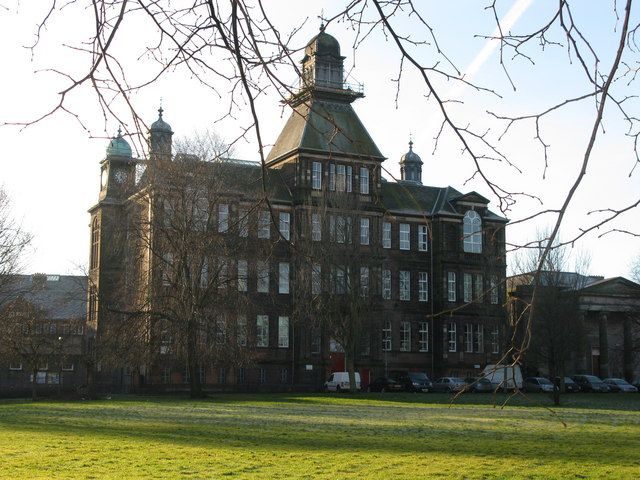 Leith Primary School This imposing building on St. Andrew Place occupies a prominent site overlooking a corner of Leith Links.